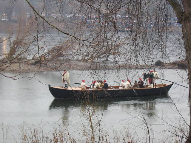 Boatmen row a Durham boat across the Delaware River after reenacting Washington's crossing of the Delaware River.